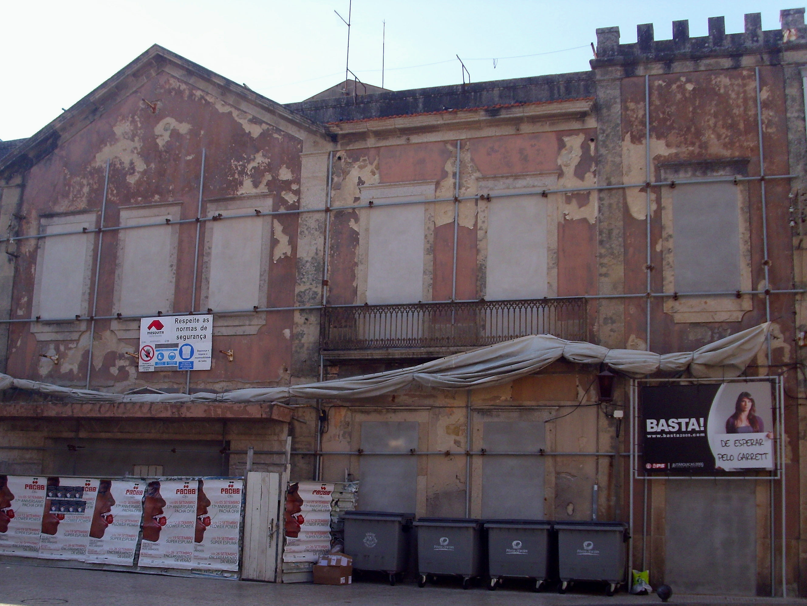 Building of Garrett Theatre of Póvoa de Varzim (1890-1998) in decay before the beginning of the recovery.